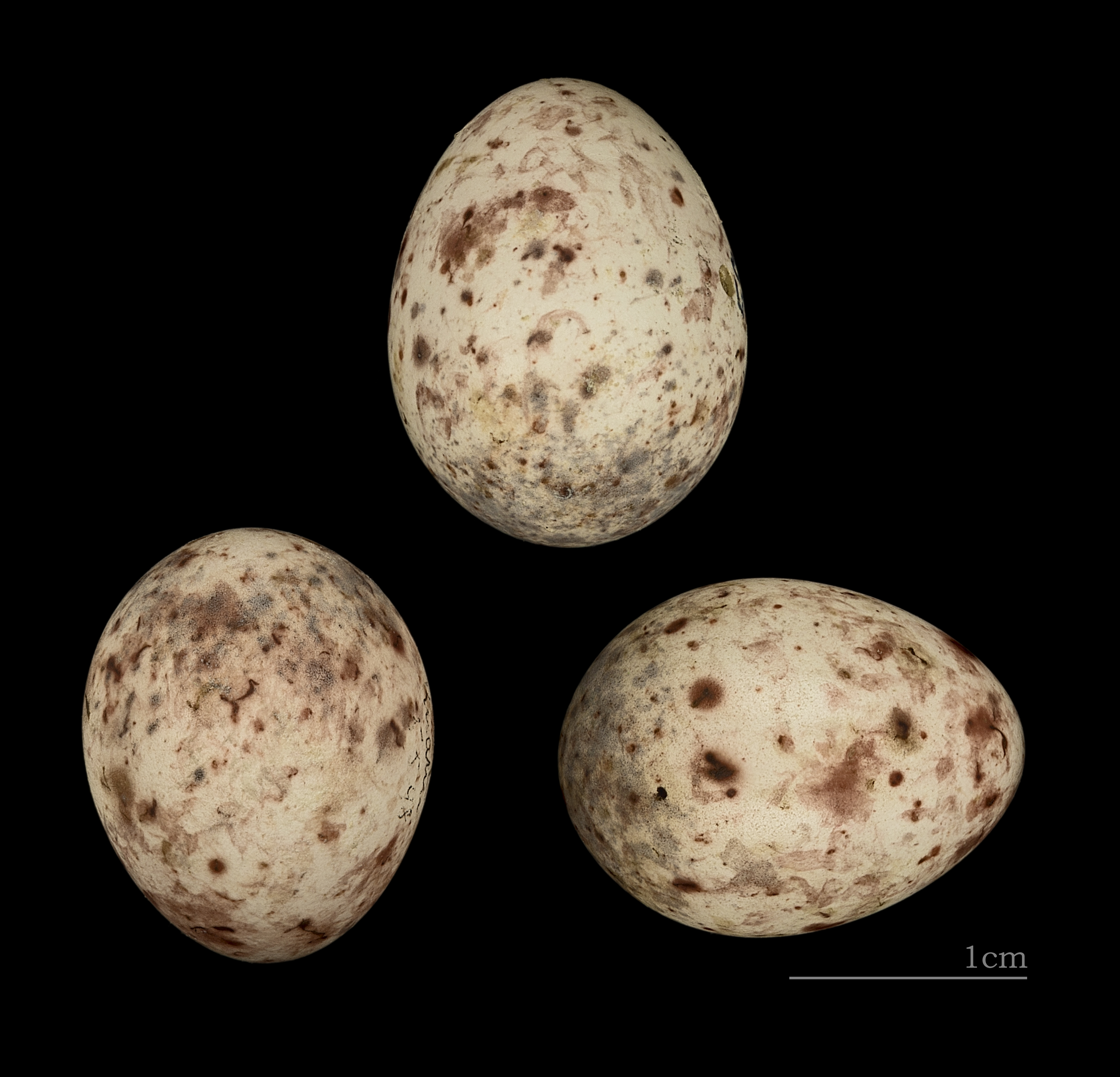 Egg of Nepal Fulvetta Collection of Henri Heim de Balsac/Jacques Perrin de Brichambaut.